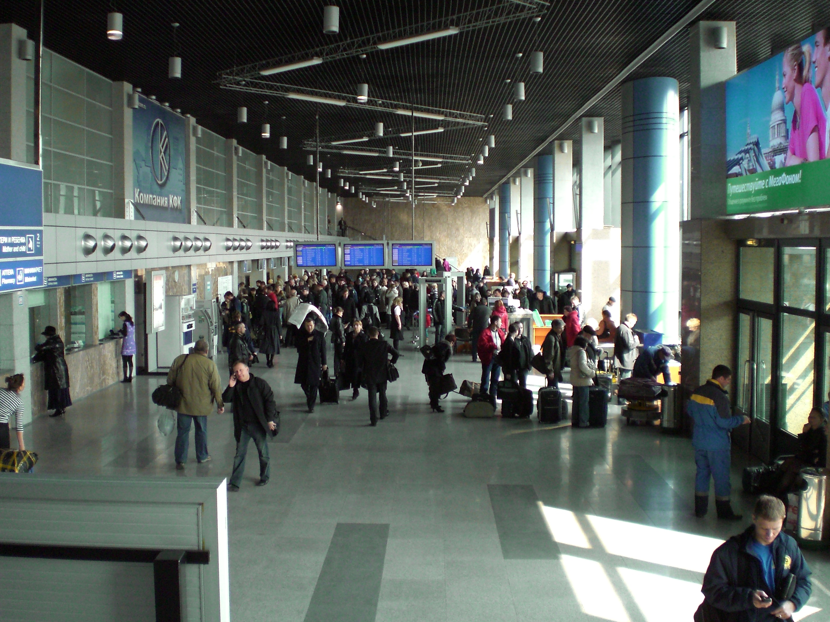 Checkin hall of the national Terminal, Airport Vladivostok